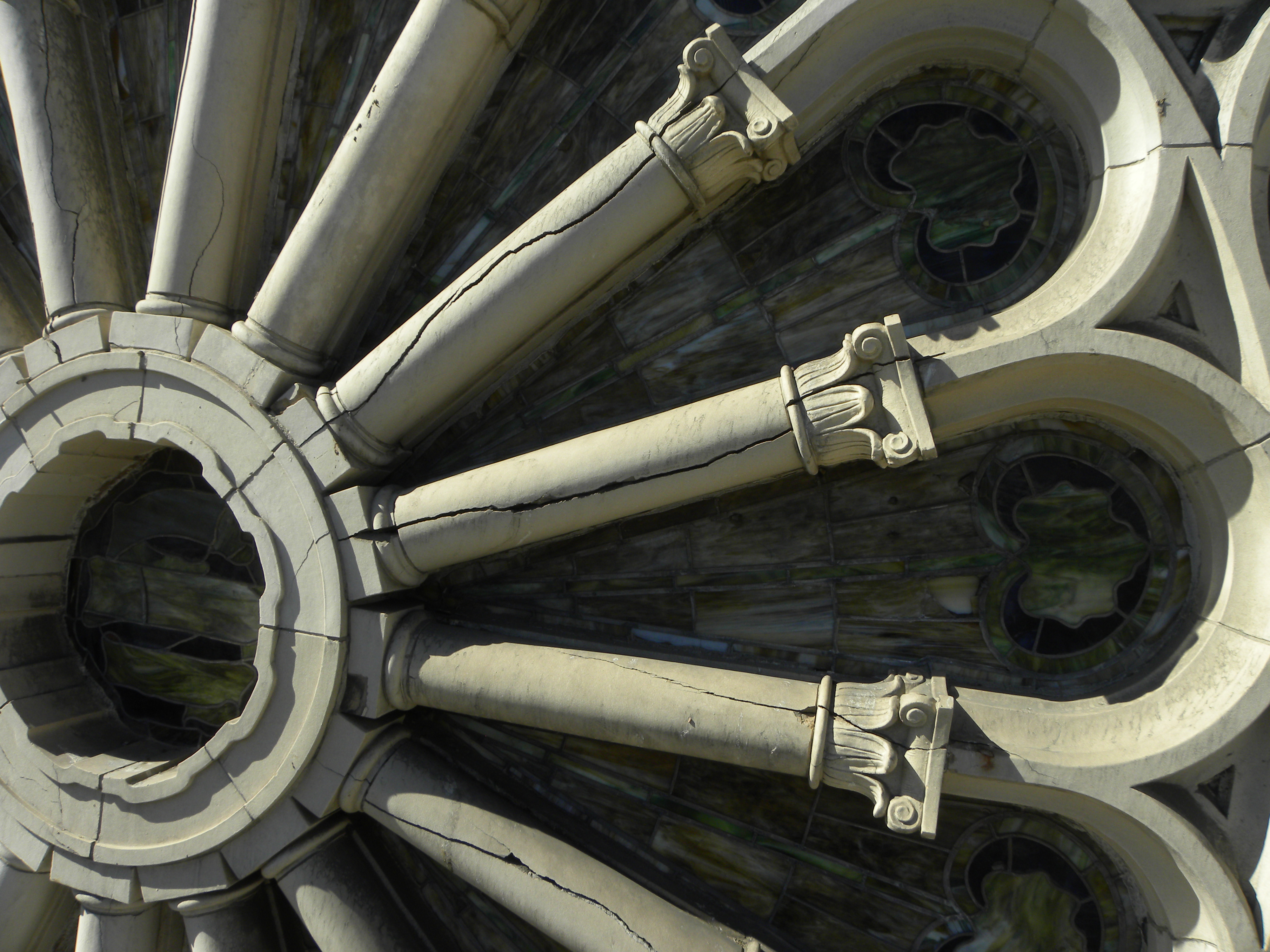 Cracking in the terra cotta at the First Congregational Church of Long Beach